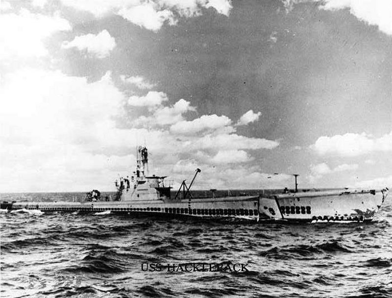 USS_Hackleback; Starboard view of the Hackleback (SS-295), underway, circa 1944, location unknown. U.S. Navy photo, courtesy of web site.